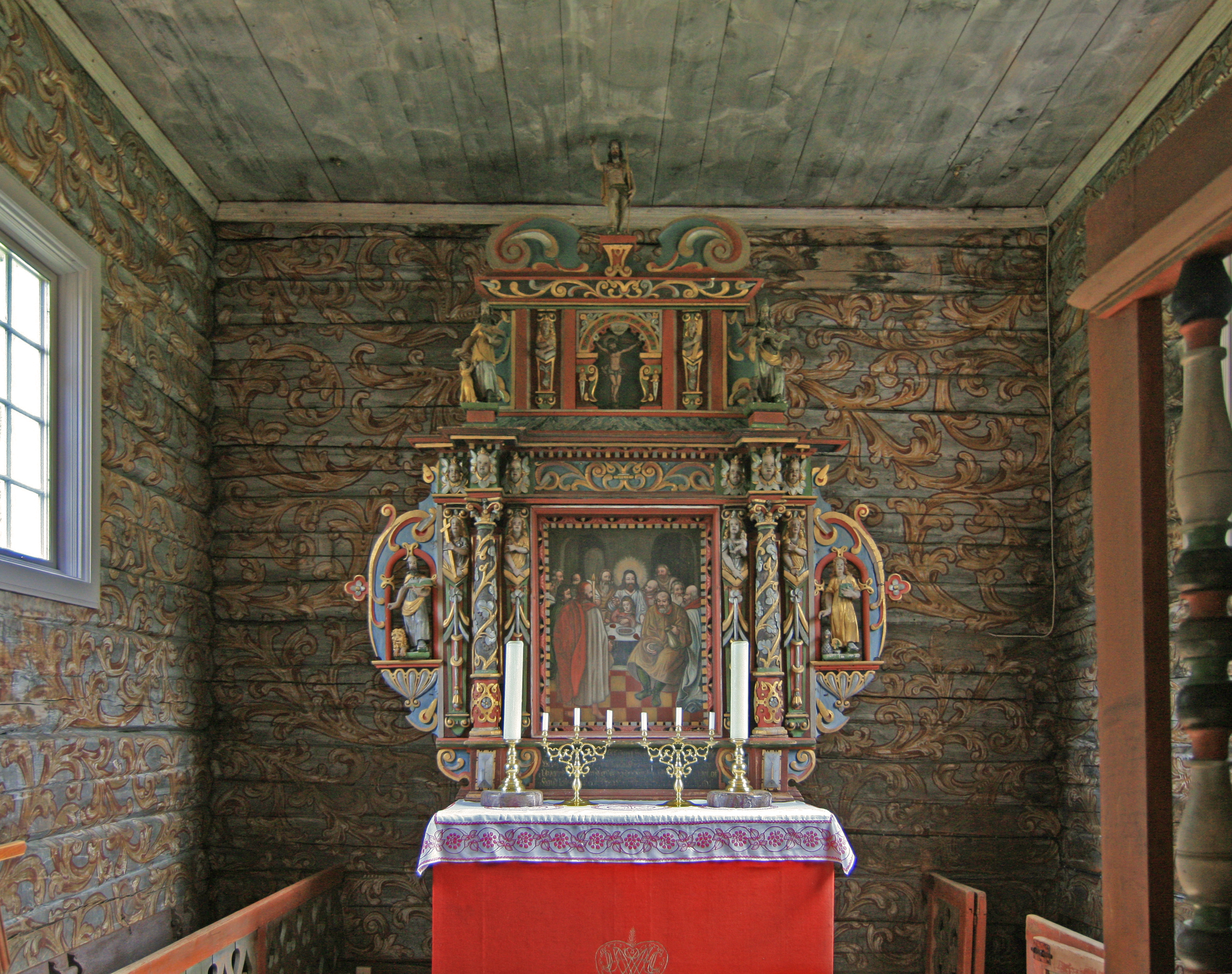 Altar of Kvikne church, Hedmark, Norway